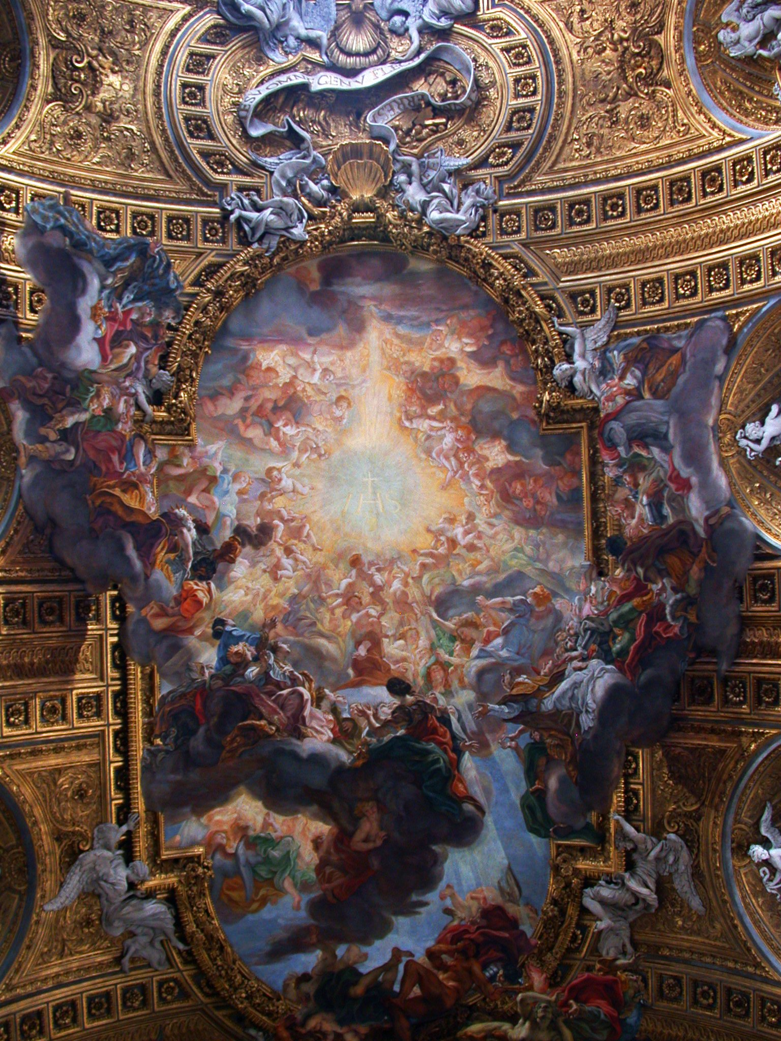 Giovanni Battista Gaulli, Triumph of the Name of Jesus, 1676-1679. Ceiling fresco with stucco figures, Church of Il Gesù (Roma). Picture taken by Benutzer:Fb78.